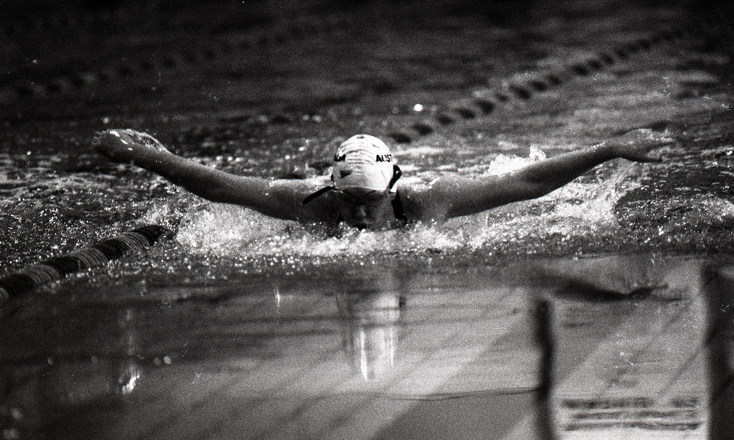 Sarah Jane Schulze swims butterfly at the 1992 Madrid Paralympic Games for Persons with Mental Handicap. Schulze was the women's team captain of the Australian Team in Madrid.